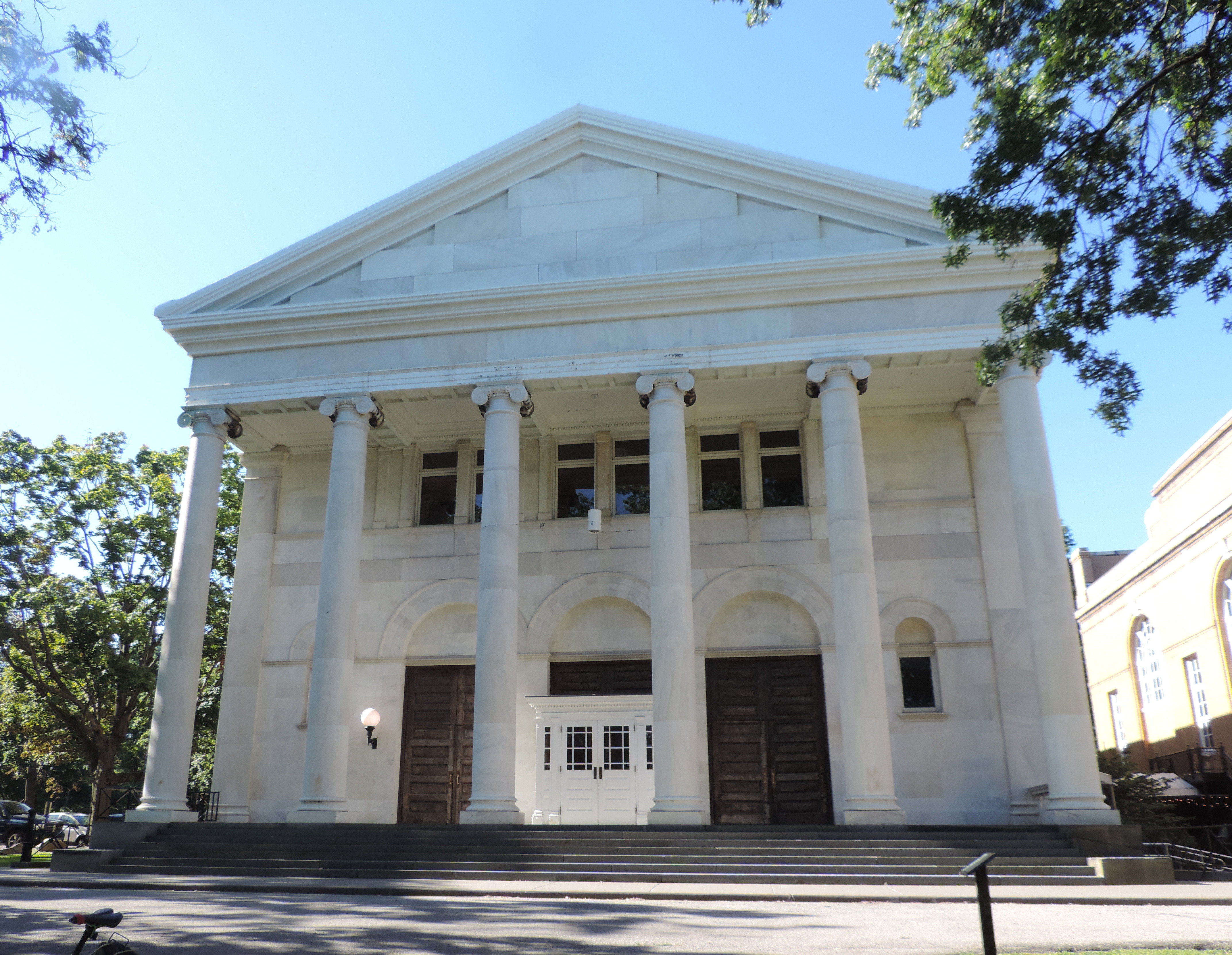 Looking south at Music Hall on a sunny morning.